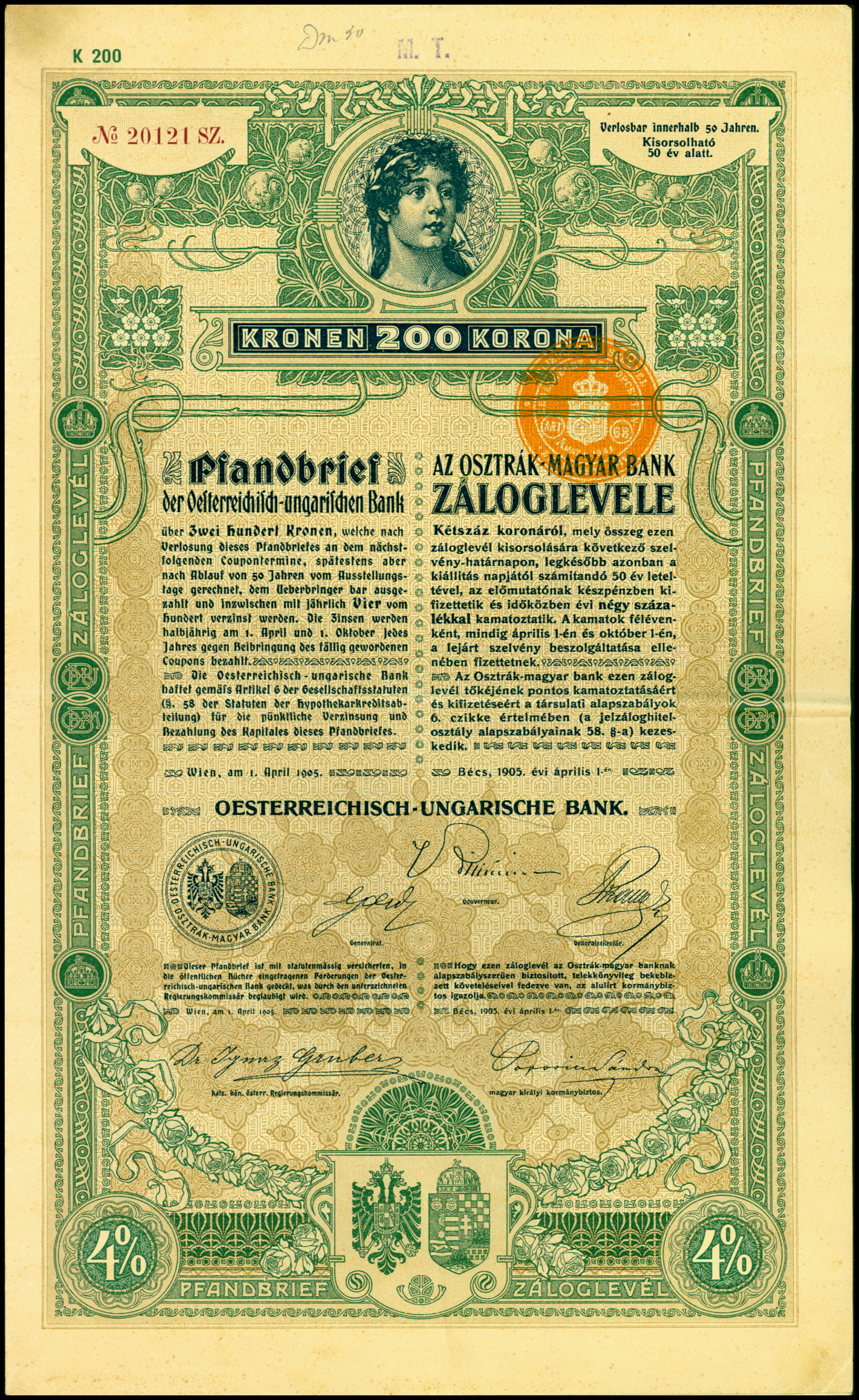 Bond of the Oesterreichisch-Ungarische Bank, issued 1. April 1905